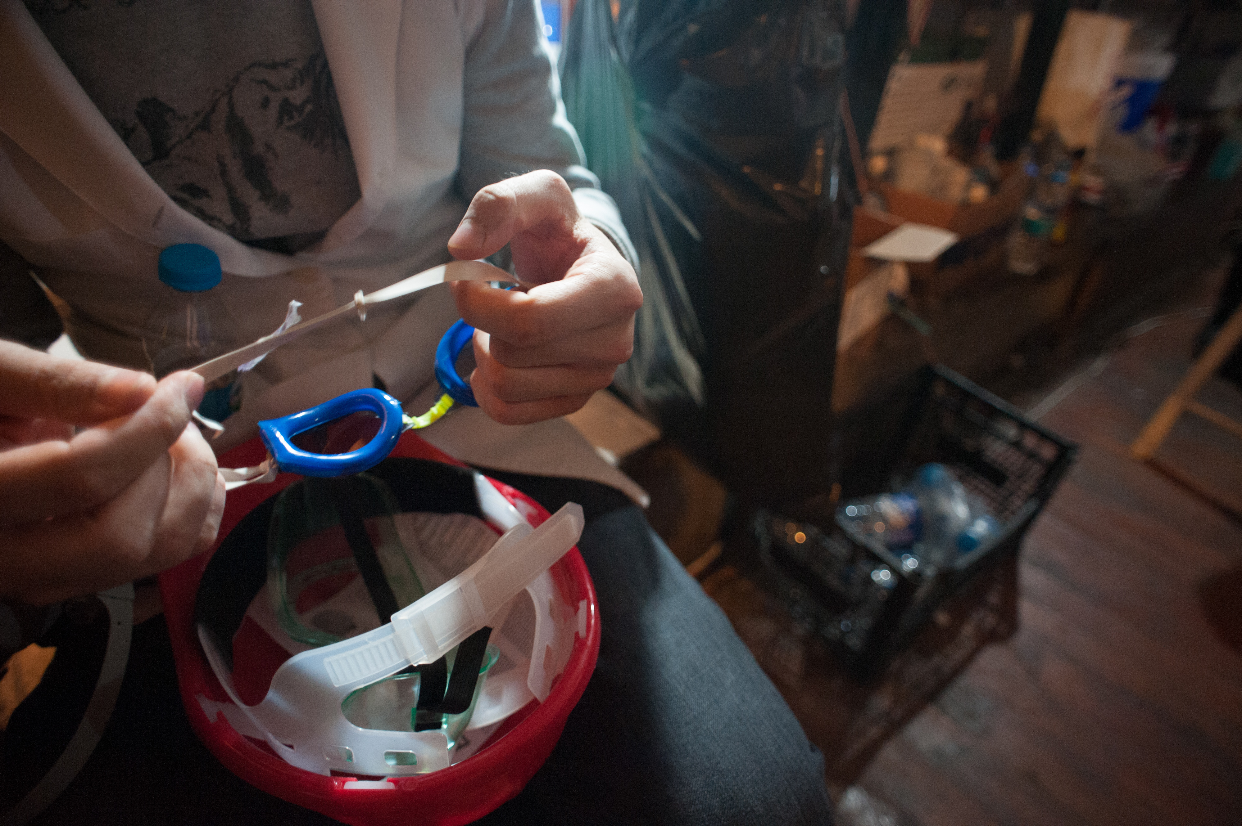 Too simple means of protection of medical volunteers from the tear gas.